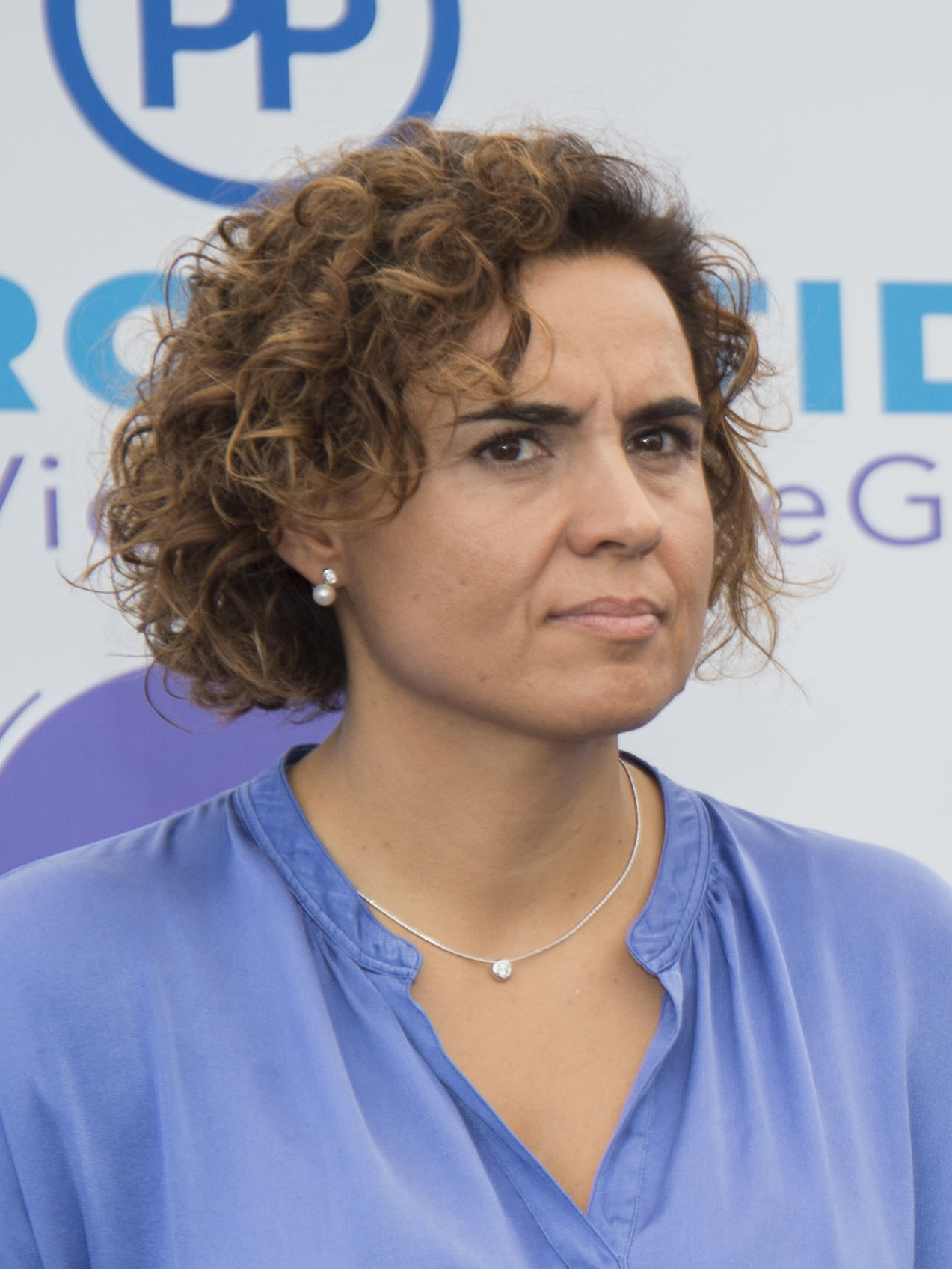 Acto de apoyo al Pacto de Estado contra la Violencia de Género organizado por el Partido Popular